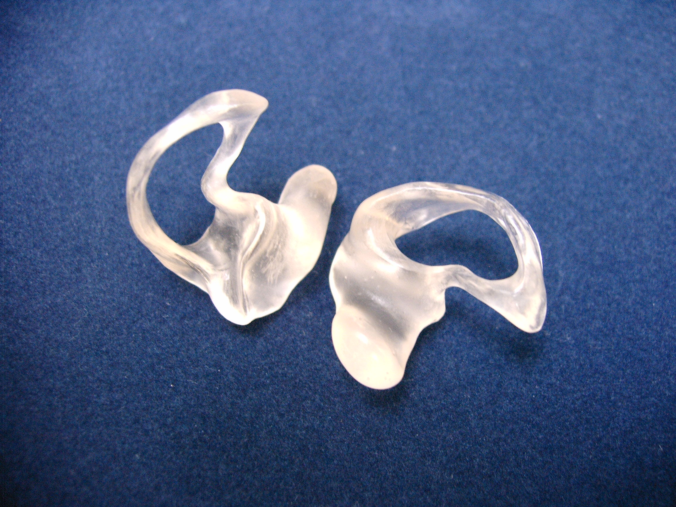 A pair of earplugs for left and right ears made of transparent hardened acrylic.